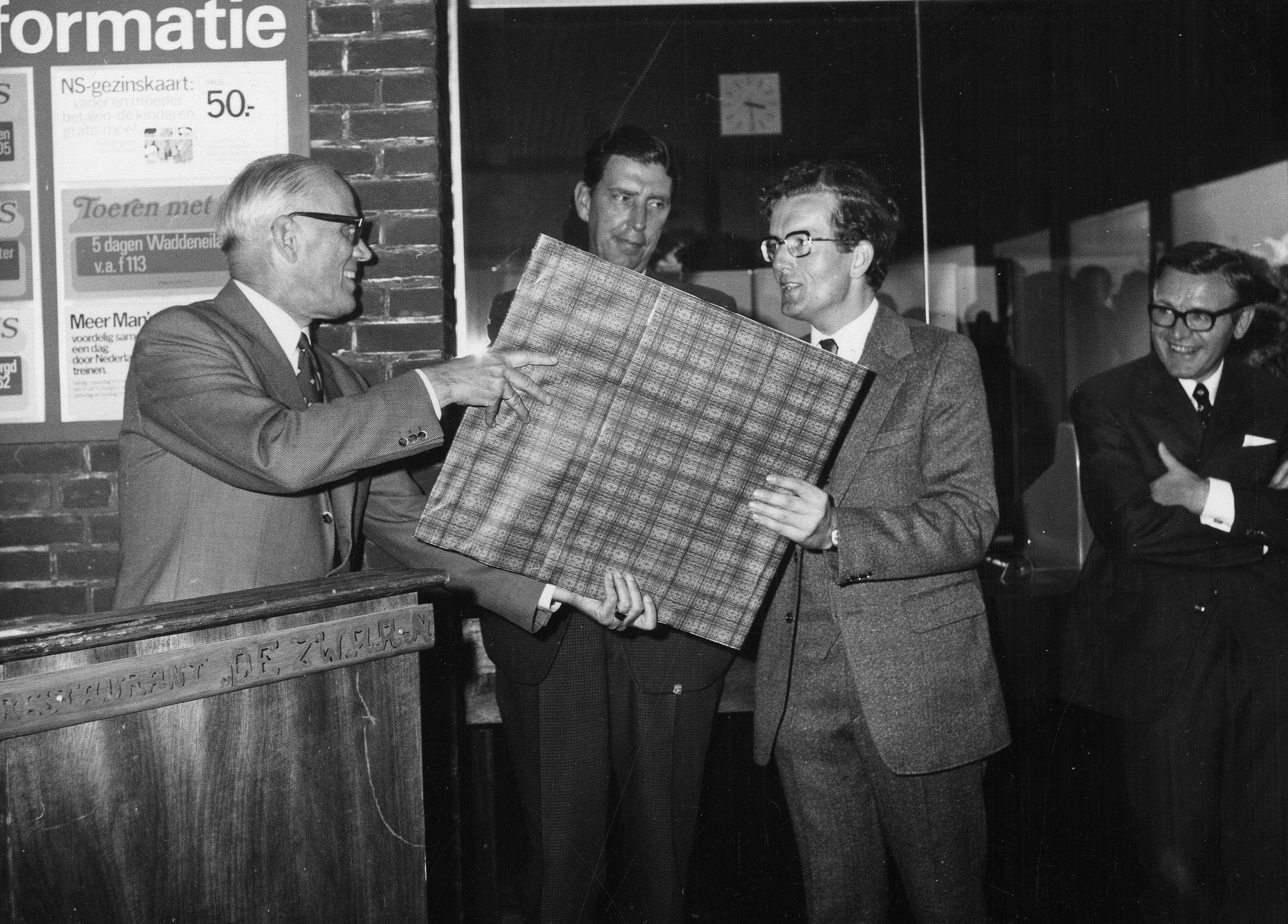 Image of the opening of the new building of the N.S.-station Didam in Didam (GE). From left to right: Unknown speaker; A. Hoogezand, chief protocol of the N.S.; Cees Douma, N.S.-architect that created the new station building; H. van Schaik, director of the N.V. Spoorwegopbouw.